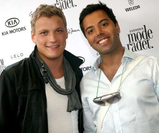 Morgning show hosts Knappen & Hakim